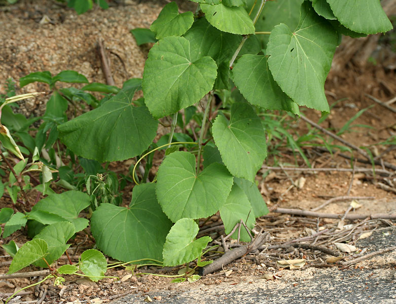 Cissus repanda (syn. Vitis repanda, Vitis pallida)- Pani Bel, Wavy-leaved Cissus • Hindi: पानी बेल Pani bel, Dekarbela • Manipuri: খোংঙৌযেন Khongngouyen • Marathi: गेंदळ Gendal • Telugu: Gummadithige, Nelaboddu, Pasupugodanithegani • Assamese: Medmedia-lop- in Keesara, Rangareddy district, Andhra Pradesh, India.